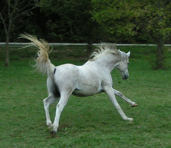 Horse play